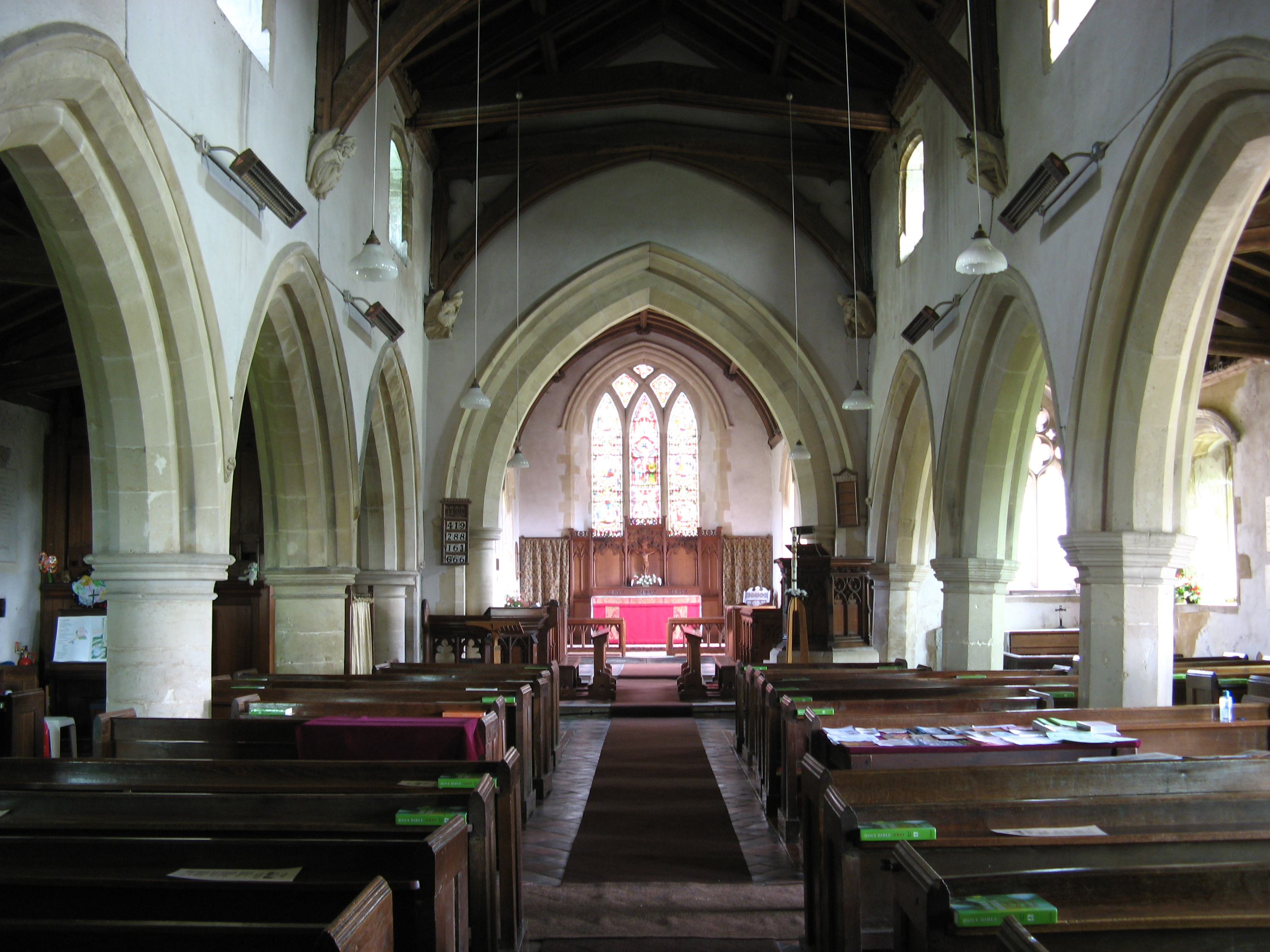 Church of England parish church of St Mary, Garsington: interior of nave looking east towards the chancel